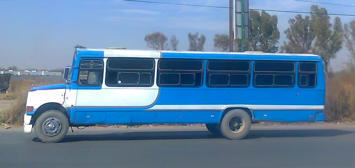 A Santa Rosa Bus, possibly from 1980s.